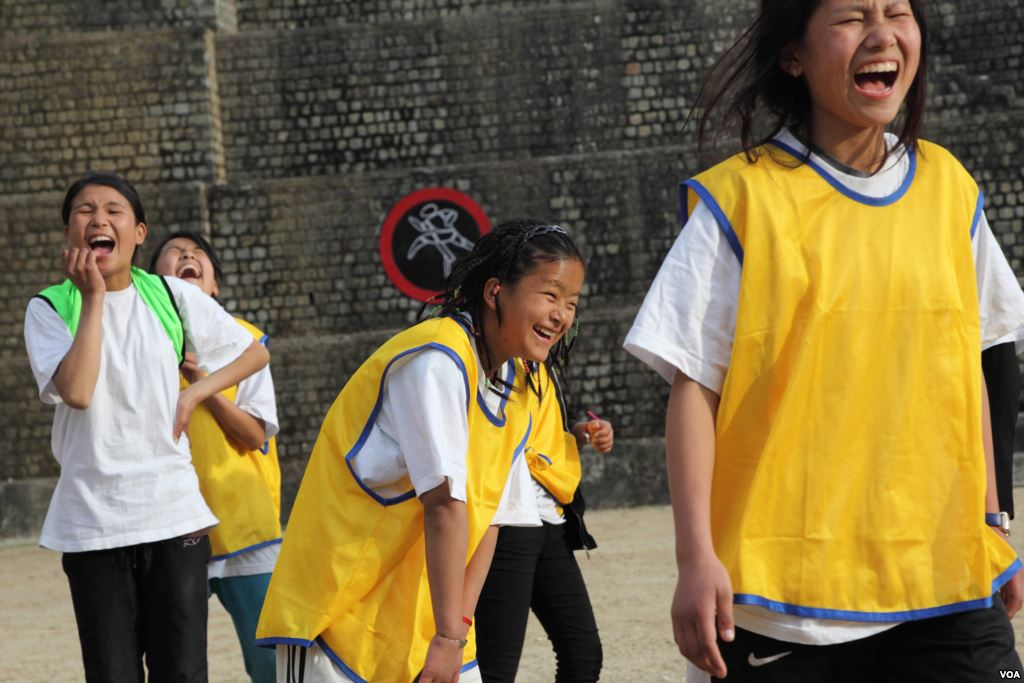 The first Tibetan women's football team was set up just one year ago, Dharamsala, April 27 (2012).